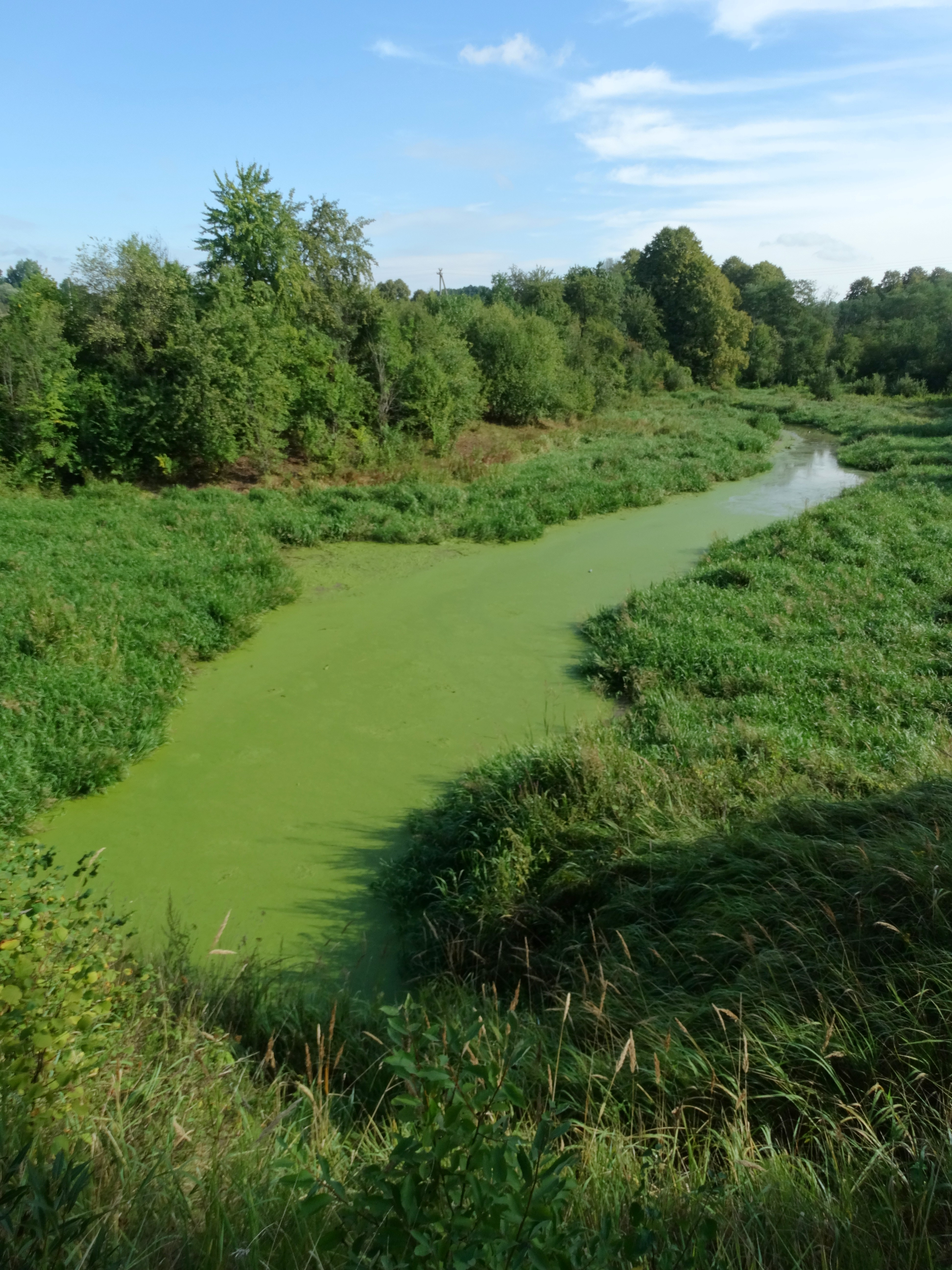 Uolė river, Kaišiadorys District, Lithuania